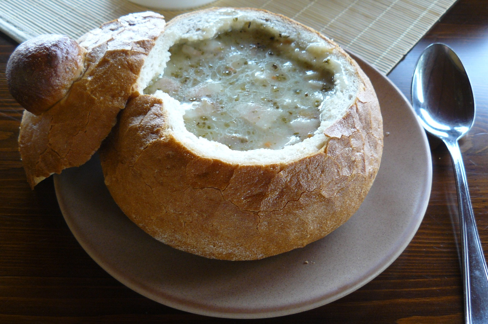 Sour soup in bread. Polish cuisine. Great Poland.